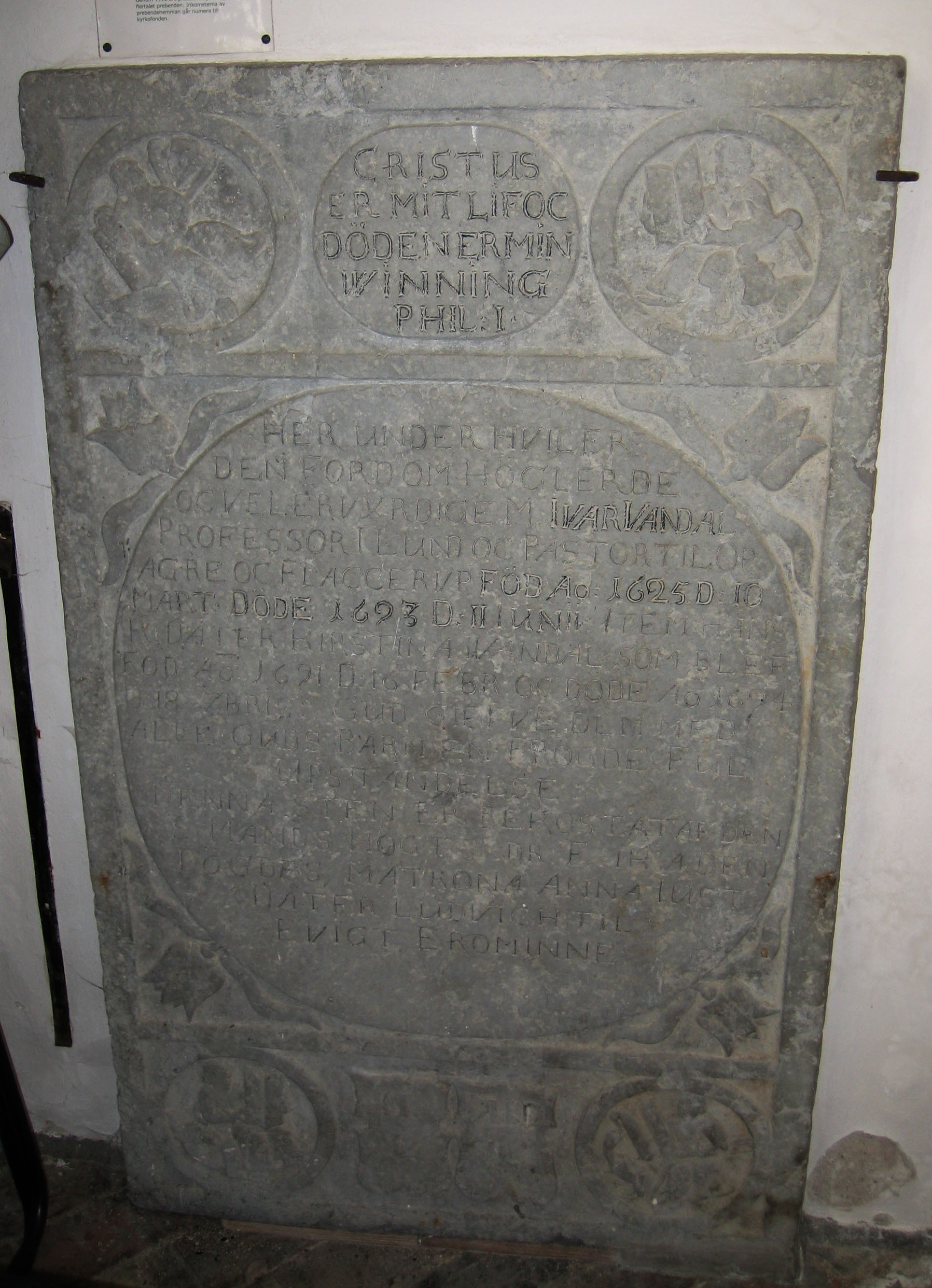 Gravestone of swedish-danish professor of history at Lunds university, Ivar Vandal (1625-1694) at Uppåkra kyrka, Sweden. Photo by the uploader.